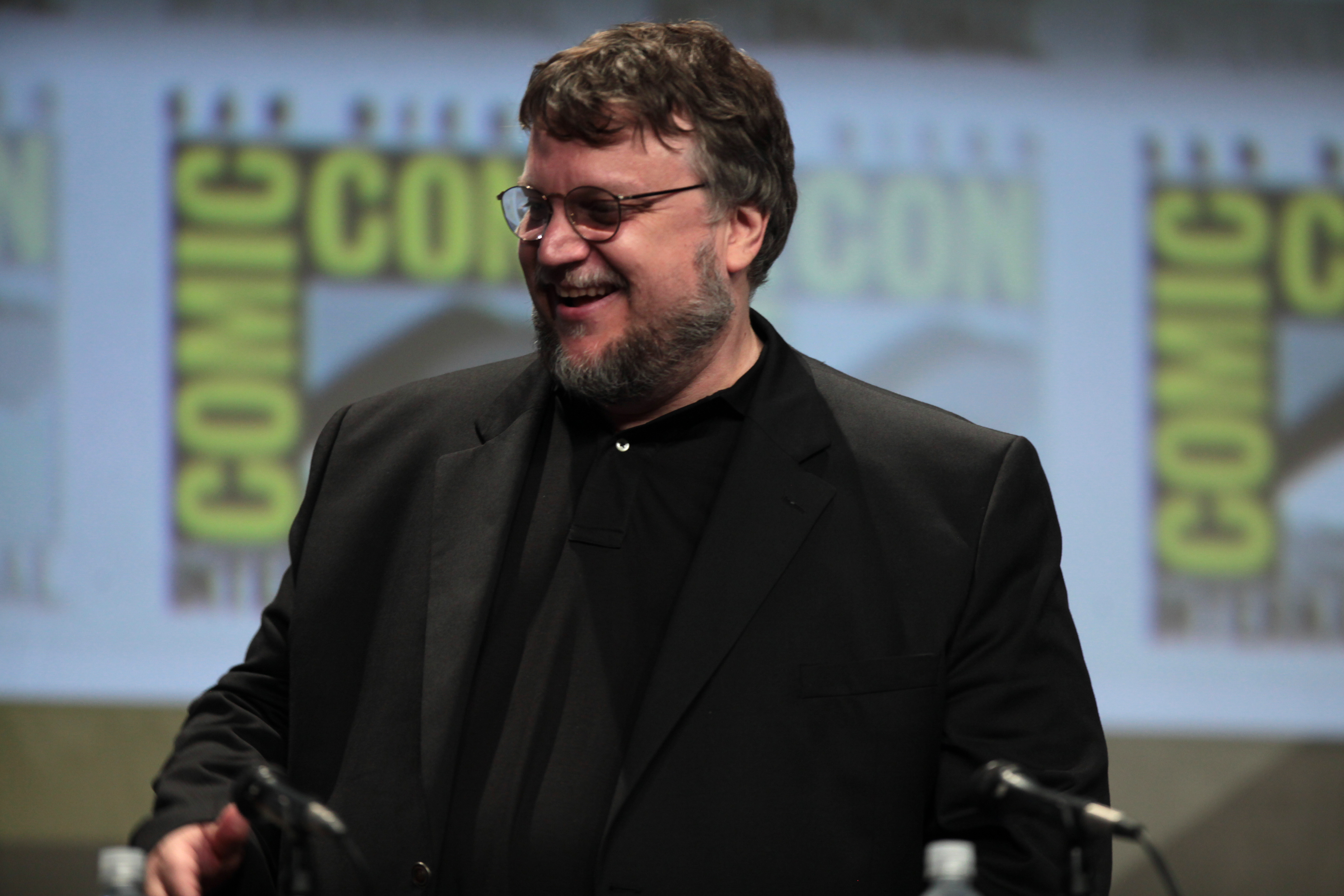 Guillermo del Toro speaking at the 2014 San Diego Comic Con International, for "The Book of Life", at the San Diego Convention Center in San Diego, California.